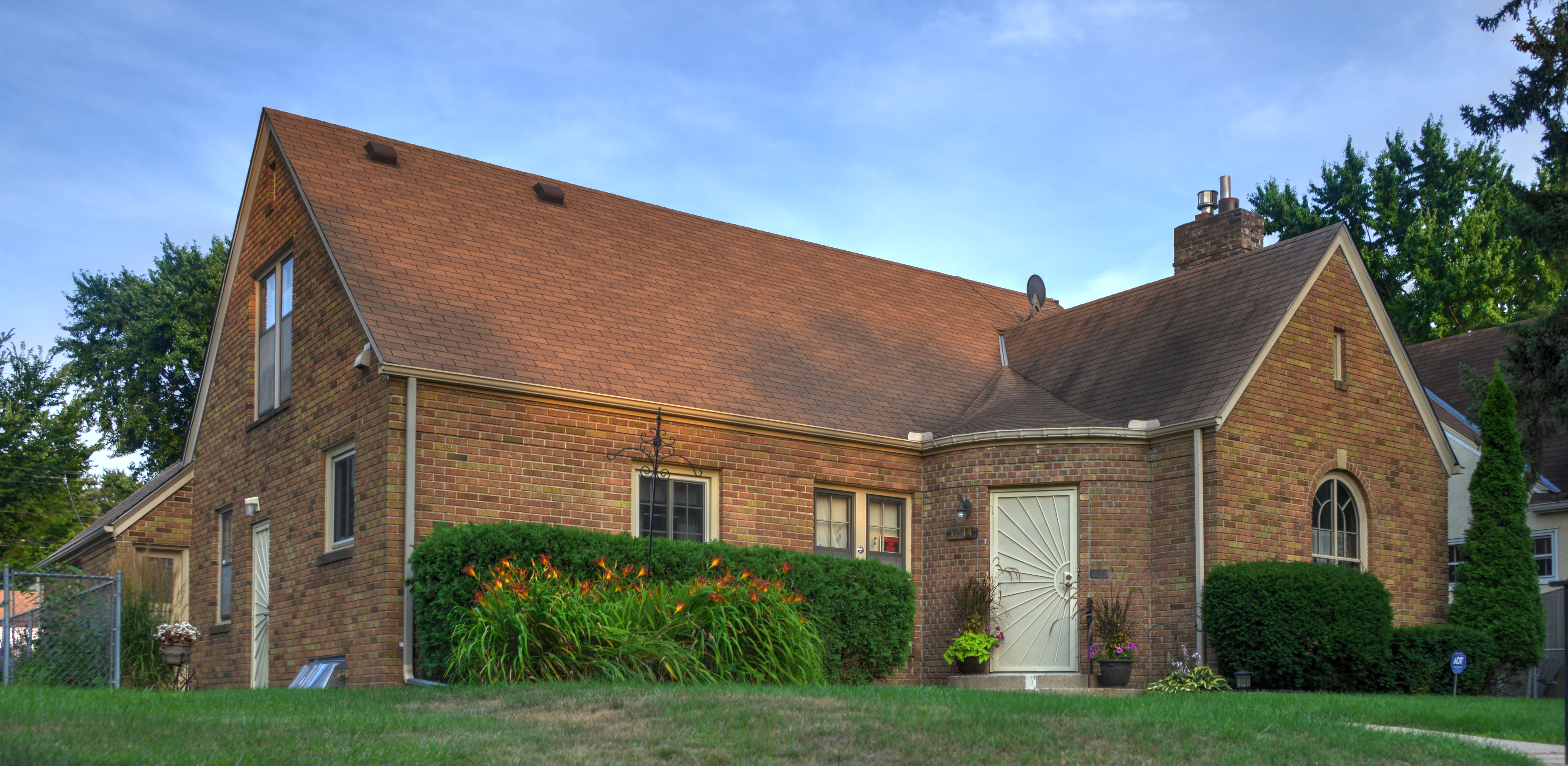 Prince, the famous Minneapolis musician, once crashed in the basement of this house after being kicked out of his own.